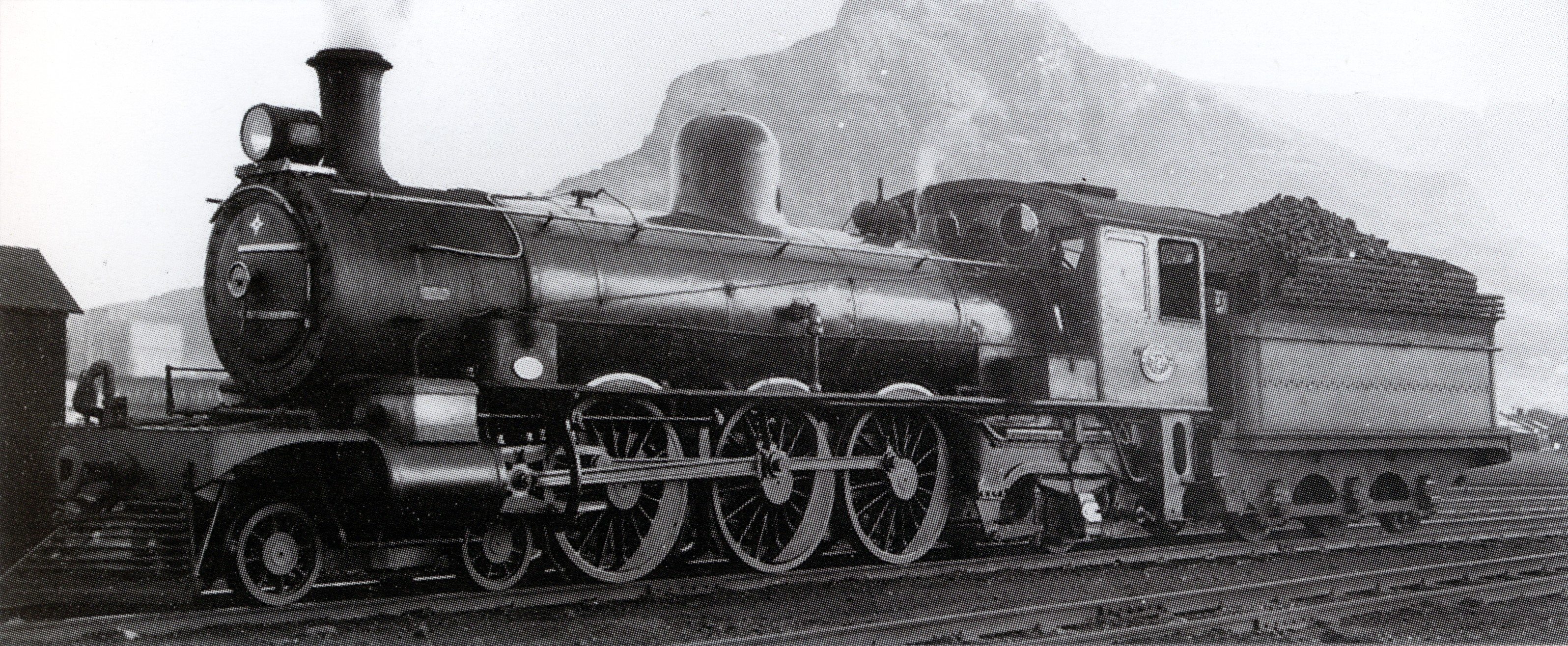 South African Railways Class 5A 721 (4-6-2), ex Cape Government Railways “Karoo” Class 903